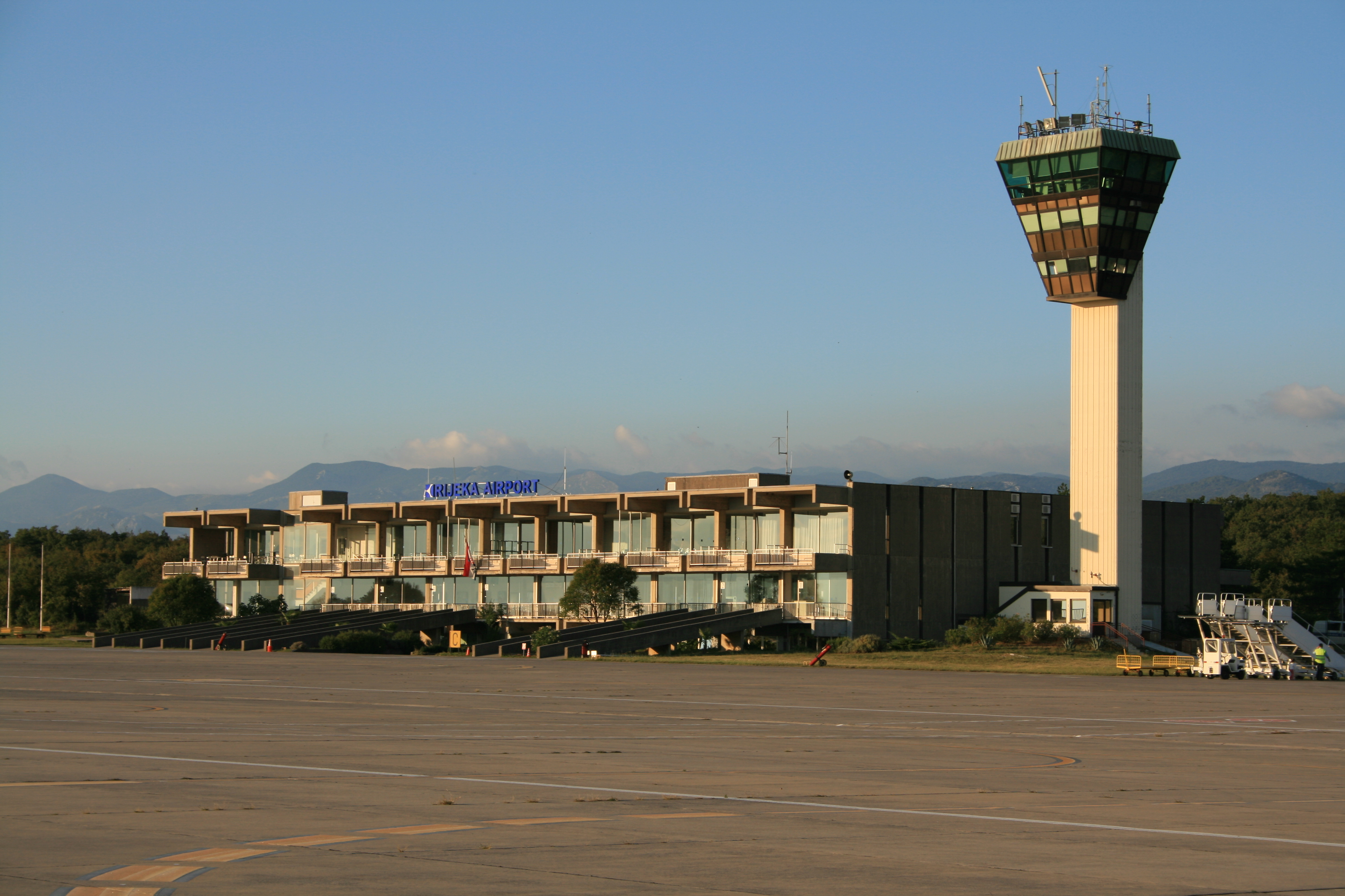 View of terminal building at Rijeka airport.